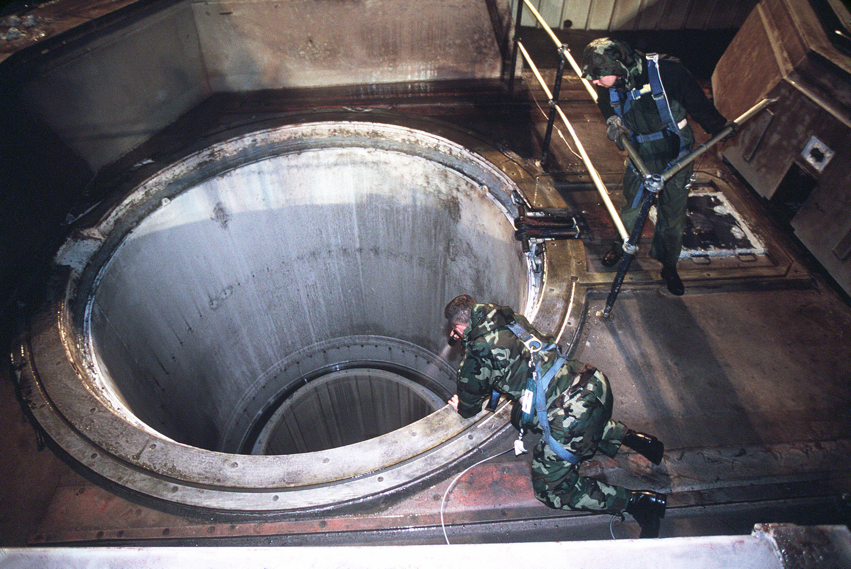 Original caption: Inside a Peacekeeper missile silo at Vandenberg AFB, CA US Air Force maintenance personnel check the missile tube for damage which may have occurred during launch. From Airman Magazine, July 2000 article "Peacekeeper 2000." (Released to Public)